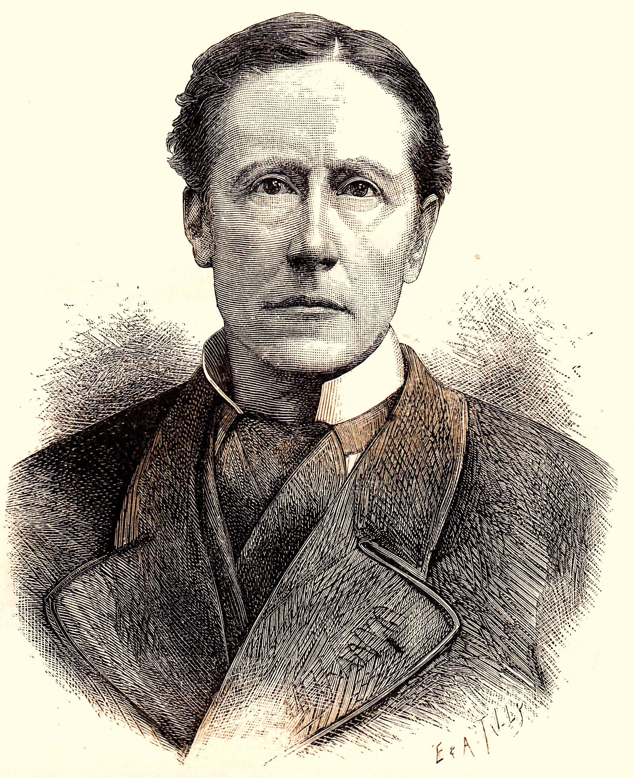 C.J.F. Mirandolle